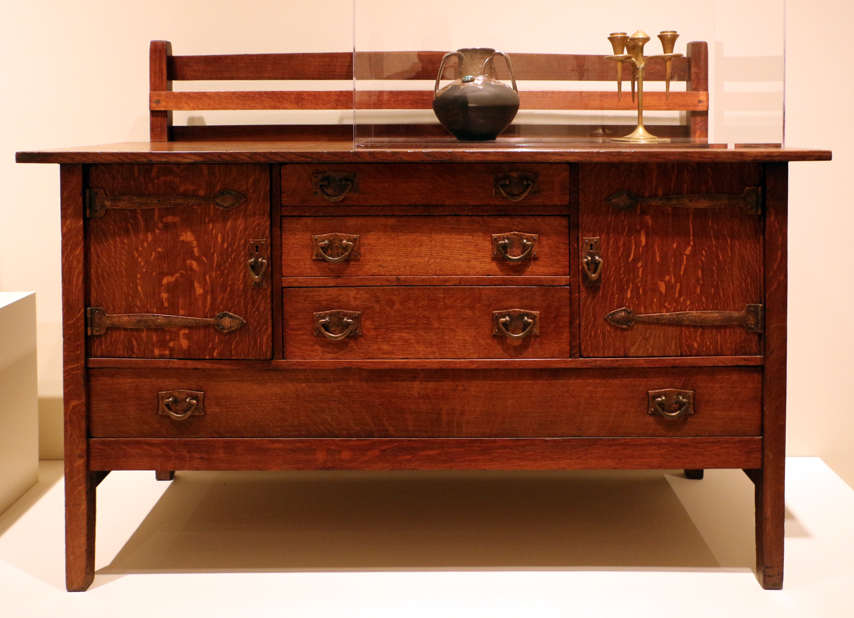 Furniture in the Indianapolis Museum of Art